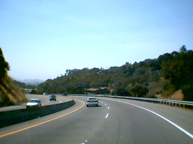 Westbound California State Route 37 in Novato, near its western terminus.